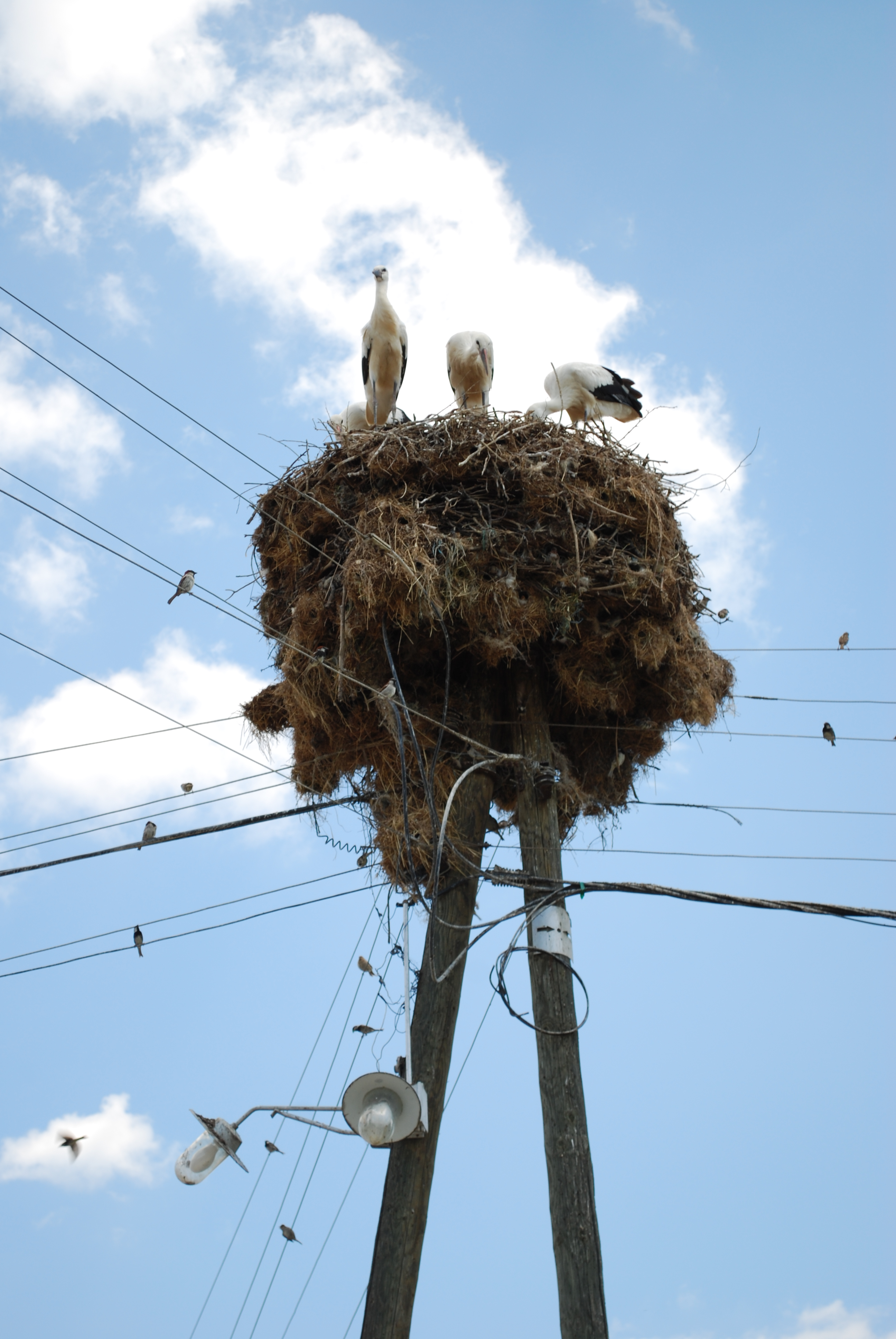 Stork nest. Taken in Gorno Konjari, Macedonia. A colony of House Sparrows and Spanish Sparrows, hybrids, or a mix (all of the male birds that can be clearly seen resemble one or the other species, not hybrids) are breeding and flocking at the base of the nest.